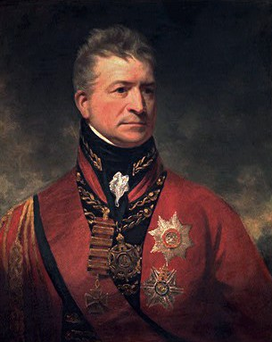 Portrait of Lieutenent General Sir Thomas Picton